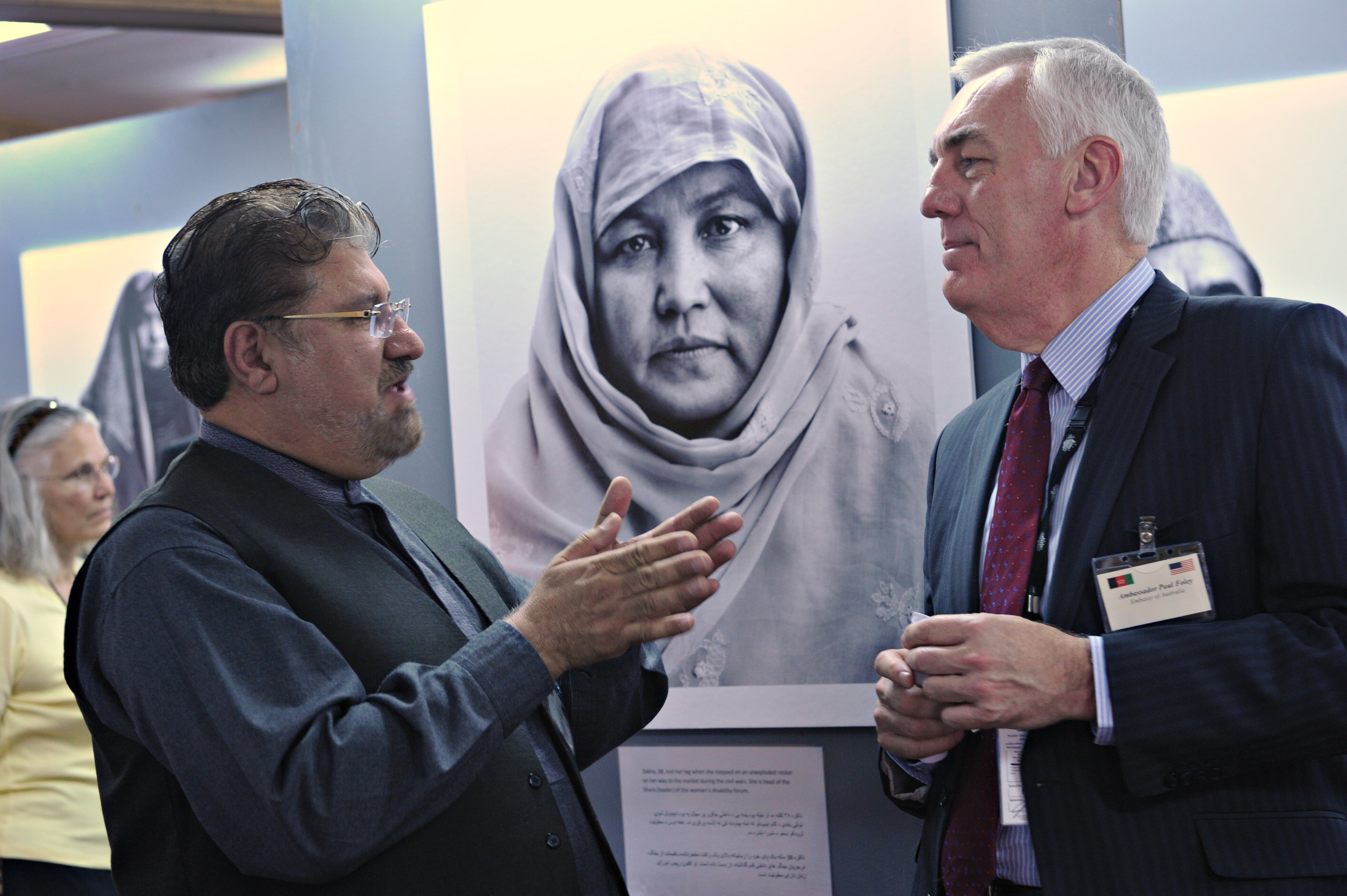 Fazel Fazel, owner of Shamshad TV, talks with Australian Ambassador Paul Foley during a Mine Action Day event featuring the work of photographer Marco Grob at the U.S. Embassy in Kabul, Afghanistan on Wednesday, May 4, 2011.